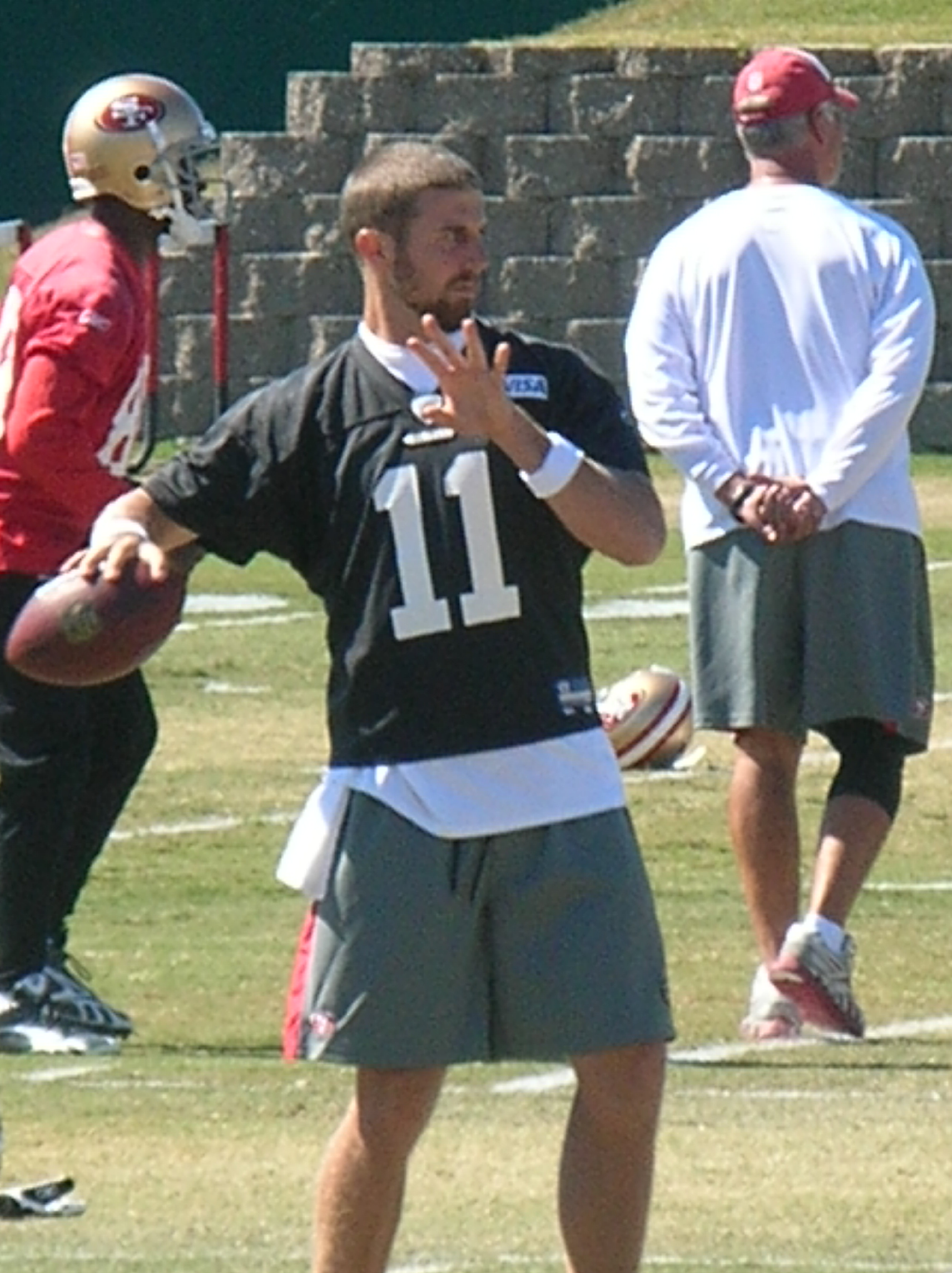 San Francisco 49ers quarterback Alex Smith at training camp in Santa Clara, California.